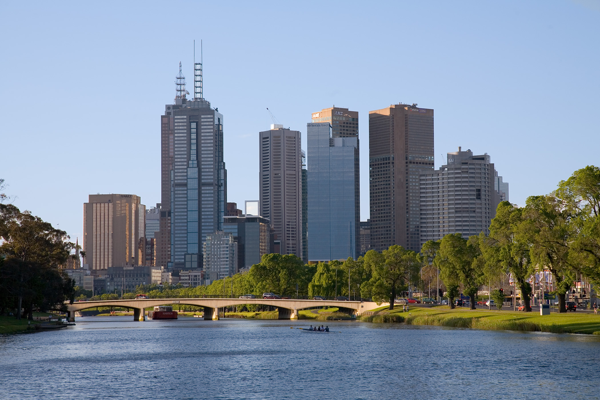 The Yarra River flowing past the Royal Botanical Gardens on the left and towards Birrarung Marr on the right on its way through the CBD. Taken with a Canon 5D and 24-105mm F/4L IS lens on the 23rd of October, 2005 by myself.